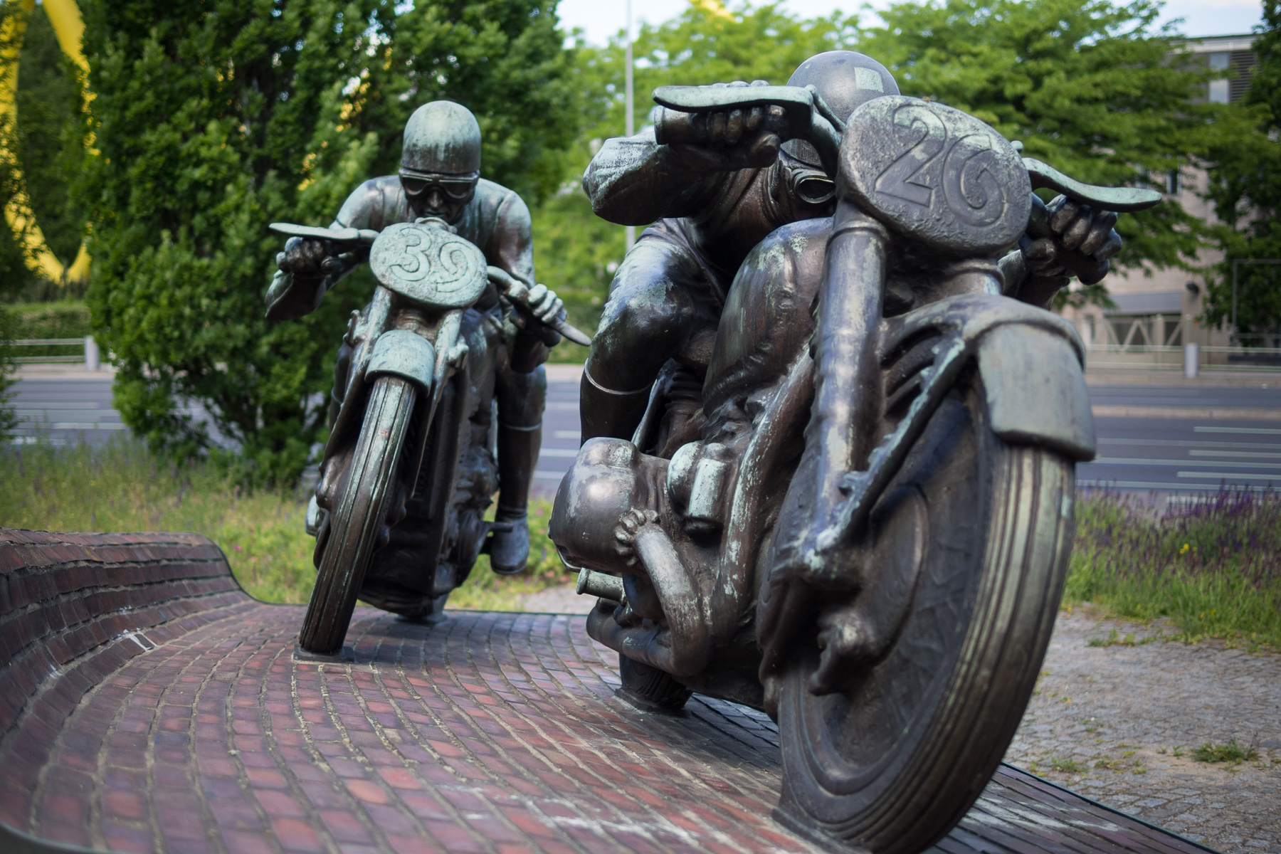 sculpture "motorcycle racers" from Max Esser 1938/1939